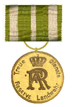 Dienstauszeichnung IIer Klasse der Landwehr 1913